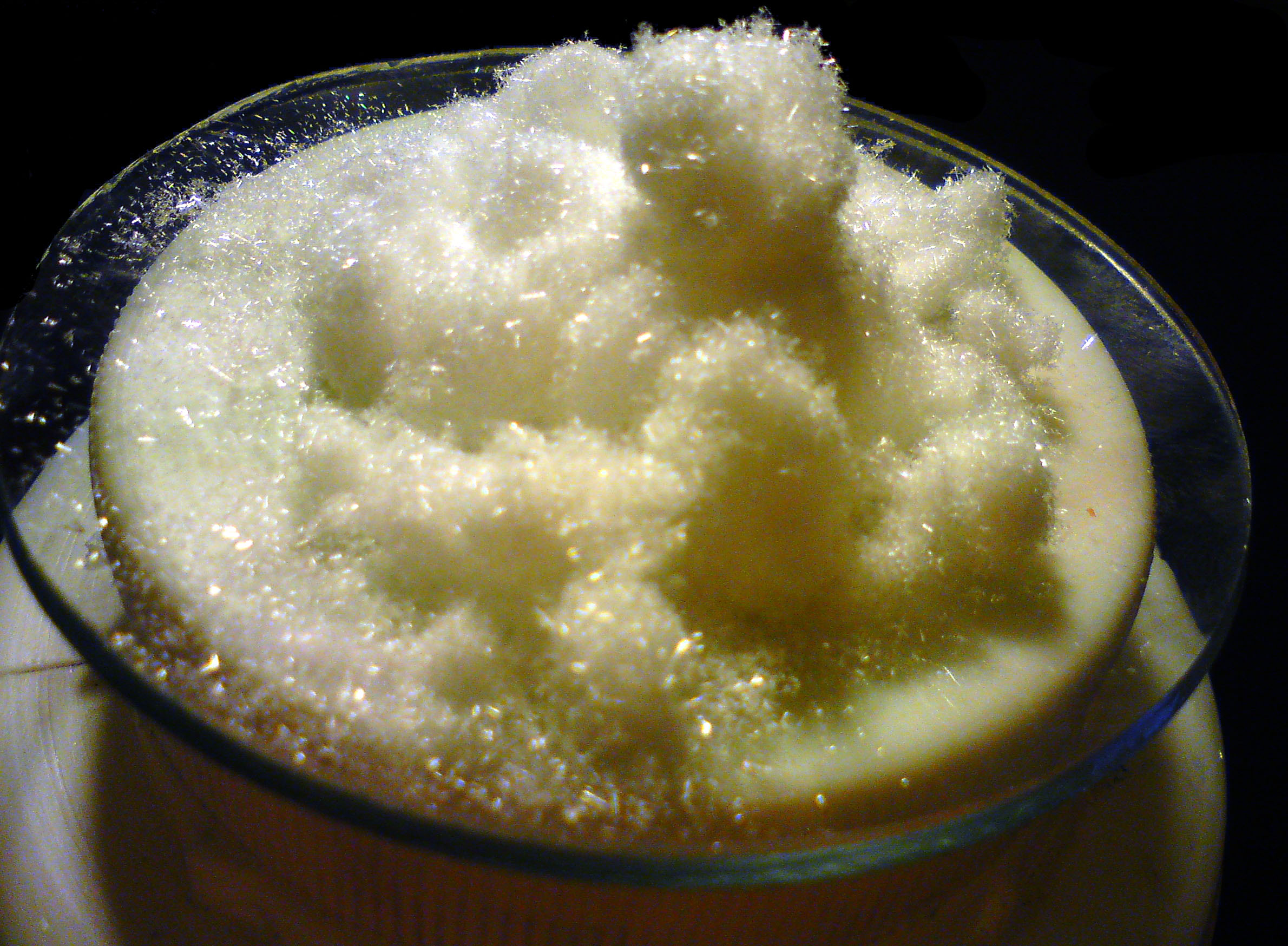 Salicylic acid sample